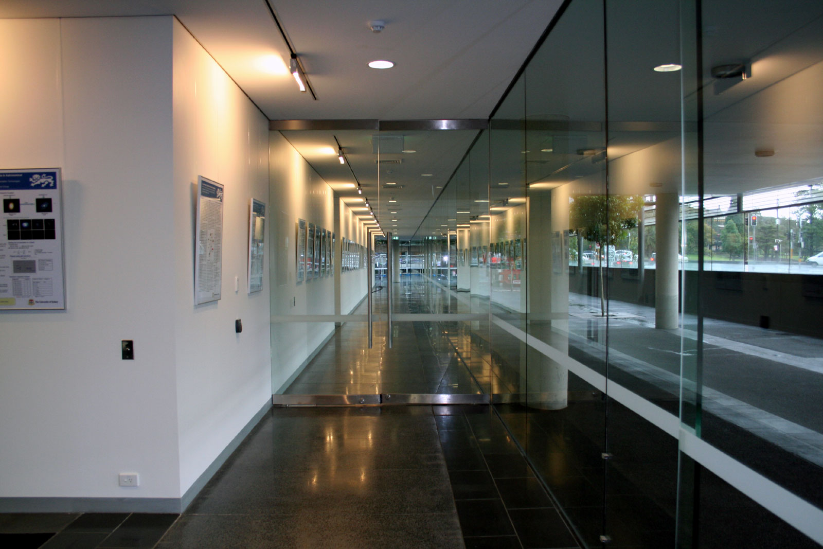 The University of Sydney School of Information Technologies building. Taken by Enoch Lau on 21 July 2006. As a courtesy, please let me know if you alter this image or this image description page. Original filename was IMG_0293.JPG.